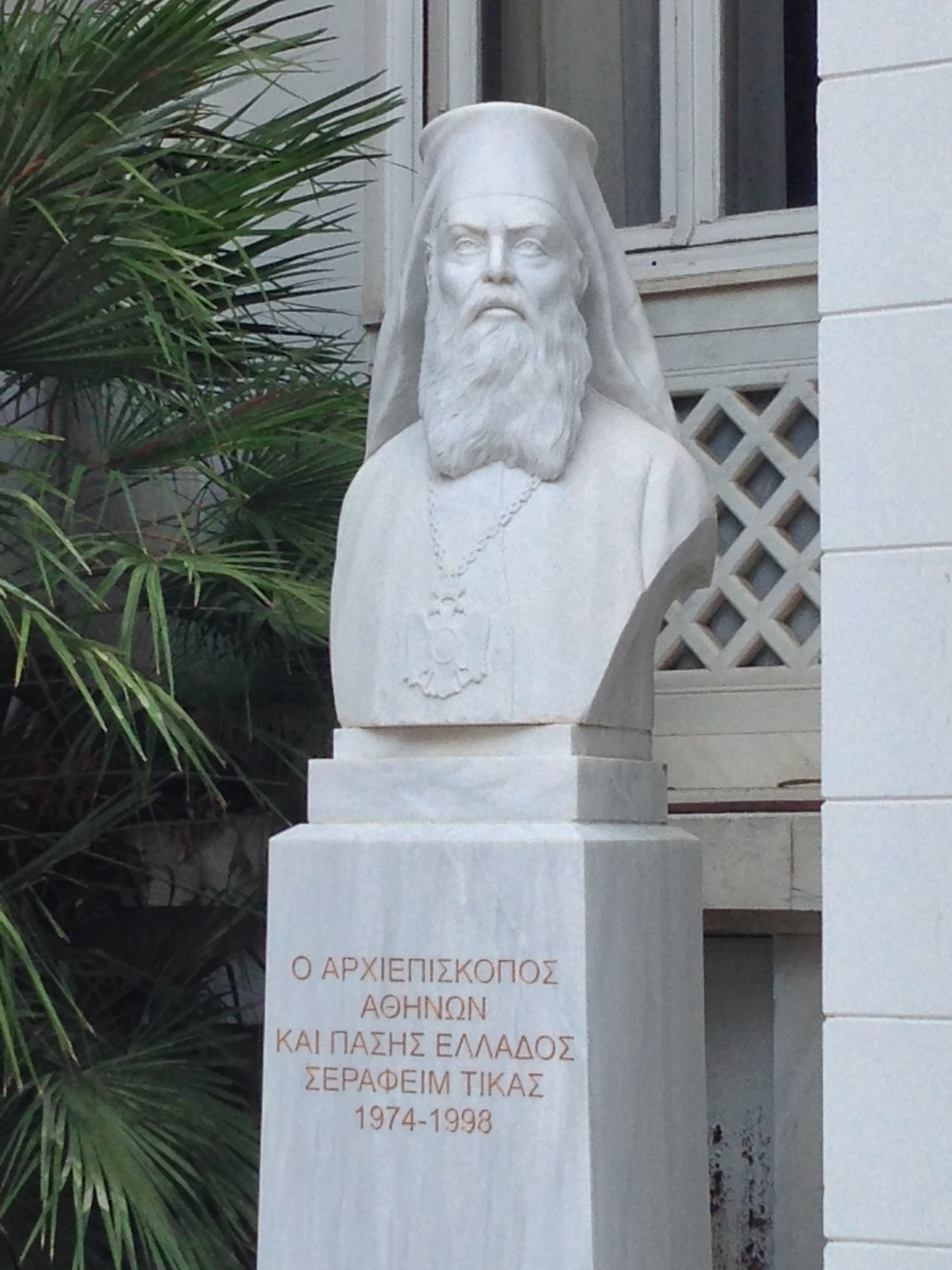 Archbishop Serafeim, Archdiocese of Athens Στρατής Φιλιππότης